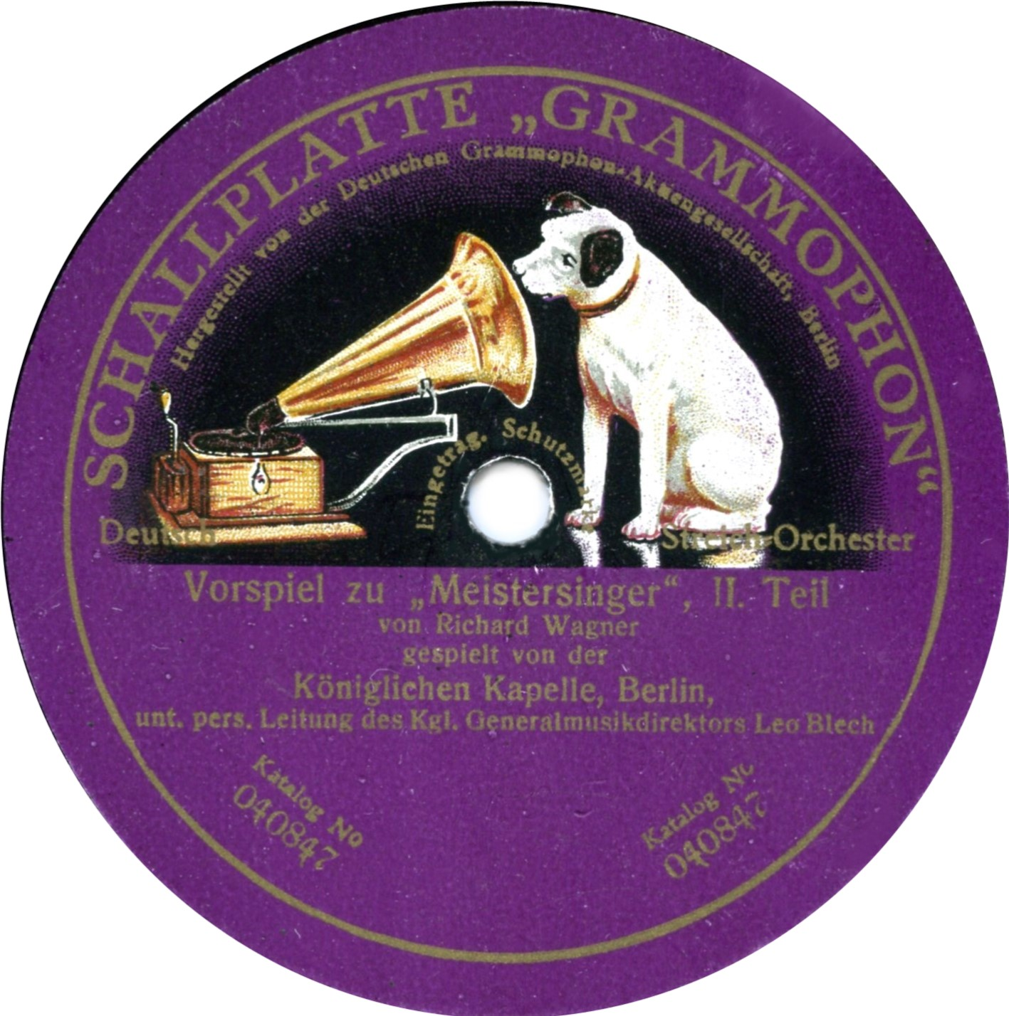 Early record of the conductor Leo Blech, Berlin Summer 1916